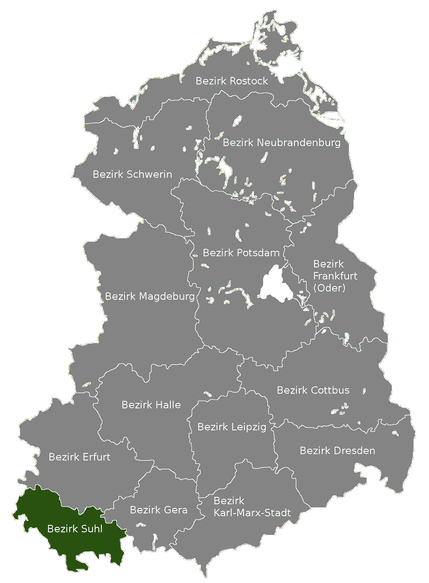 Map based on German Wikipedia